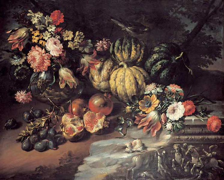 Felice Boselli Still life with pumpkins, pomegranates and figs 1700